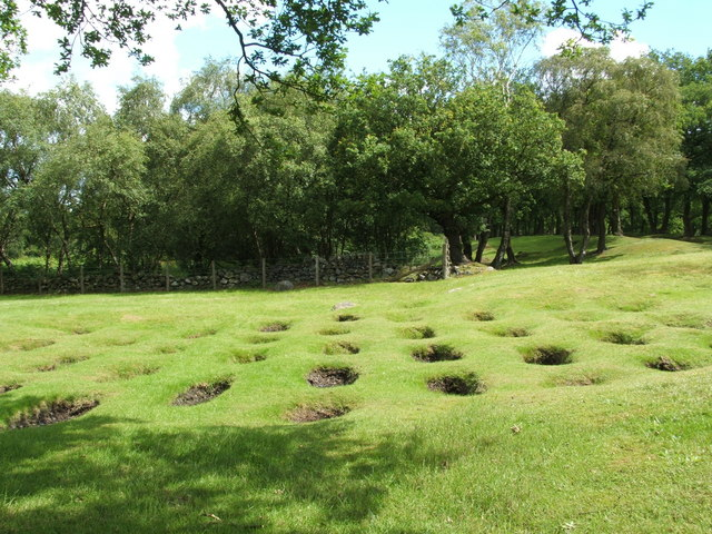 The Lilia at Rough Castle. These pits formed part of the forward (northern) defences of the Roman fort at Rough Castle, on the Antonine Wall. They were originally about 3 feet deep and probably held upright sharpened stakes; these pits were then concealed with brushwood. The defences here consisted of about ten rows of twenty pits each. These pits were opened up by excavation in 1903, and have been kept open since then. The Romans called these defences "lilia". This literally means "lilies", a military euphemism referring to the plant of the same name. Julius Caesar used such a system of lilia in his siege of the Gallic city of Alesia in 52BC. (Compare the medieval "Trou de loup", and the "Punji Pit" of more recent warfare, both of which operated on the same principle.) See also 84377.